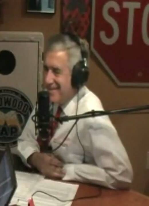 Episode 043 of Fox Valley Voice, wherein Kane County Board Chairman Chris Lauzen joins to co-host the show.